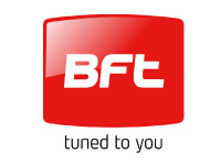 Tuned to you: a new image and a new message...